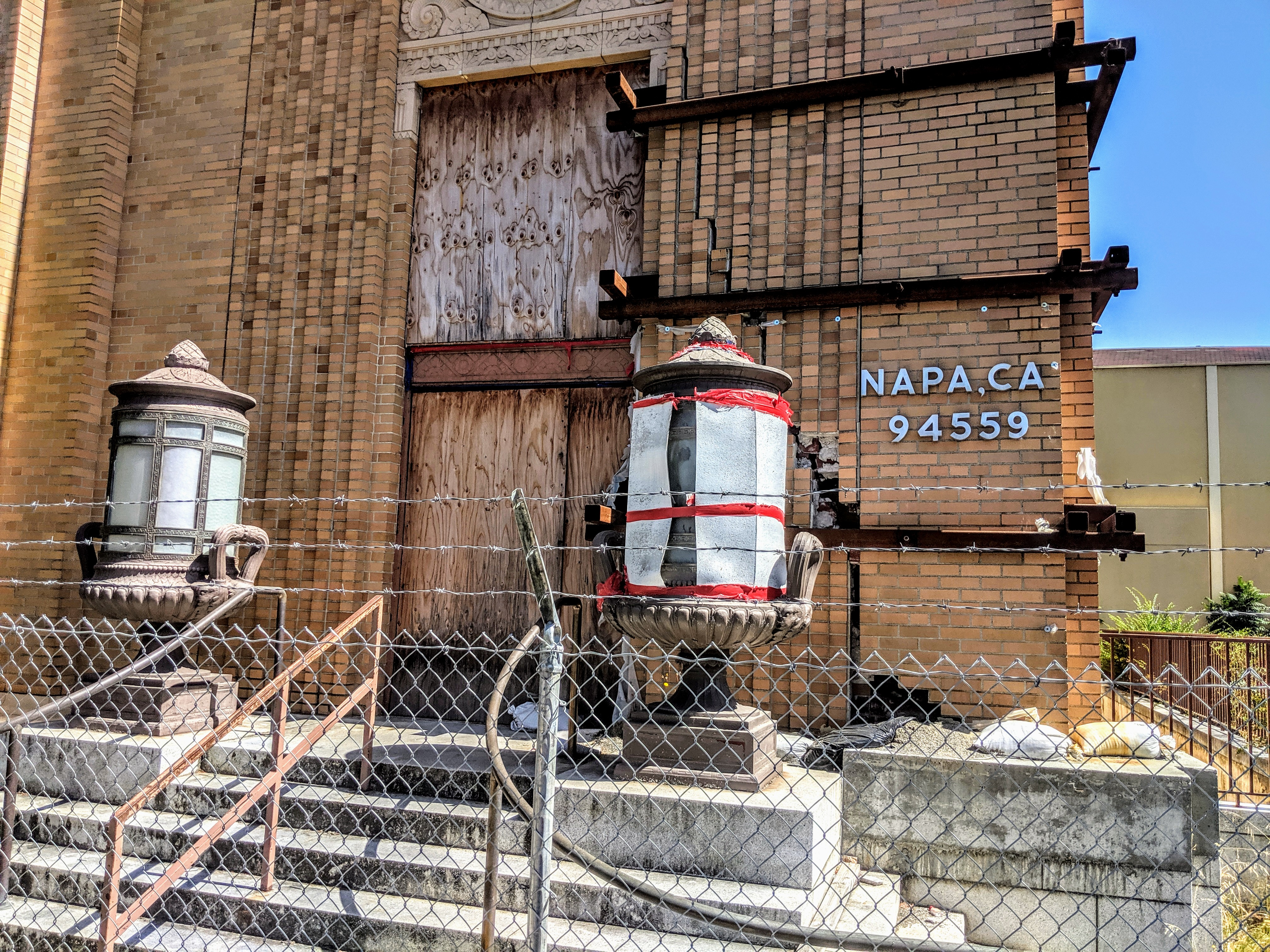 This post office building was damaged in the 2014 South Napa earthquake, and has not yet been renovated in 2019. Photo by Jim Heaphy.